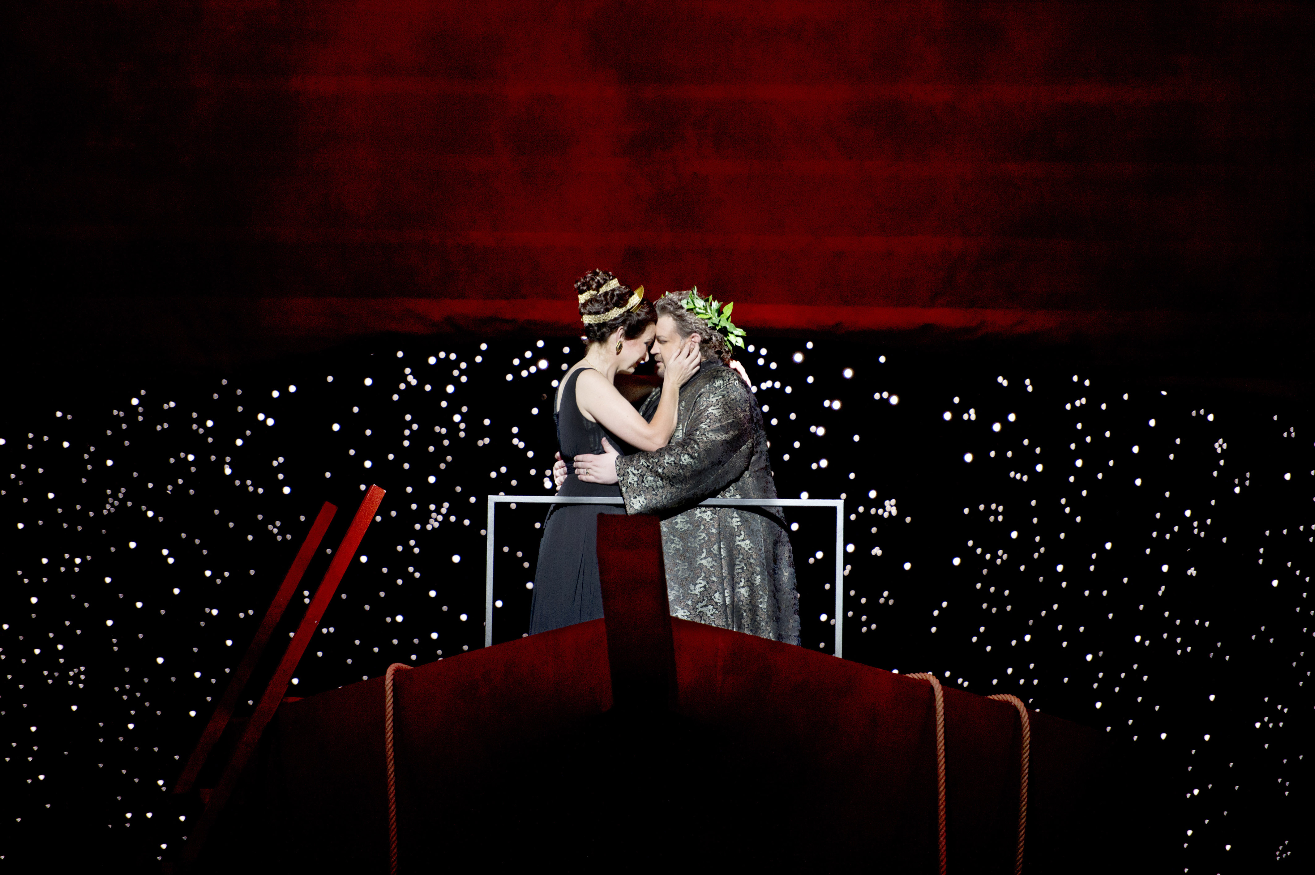 Production of Ariadne auf Naxos at Hamburgische Staatsoper 2012, stage photo: Anne Schwanewilms as Primadonna / Ariadne (left), Johan Botha as Tenor / Bacchus (right).